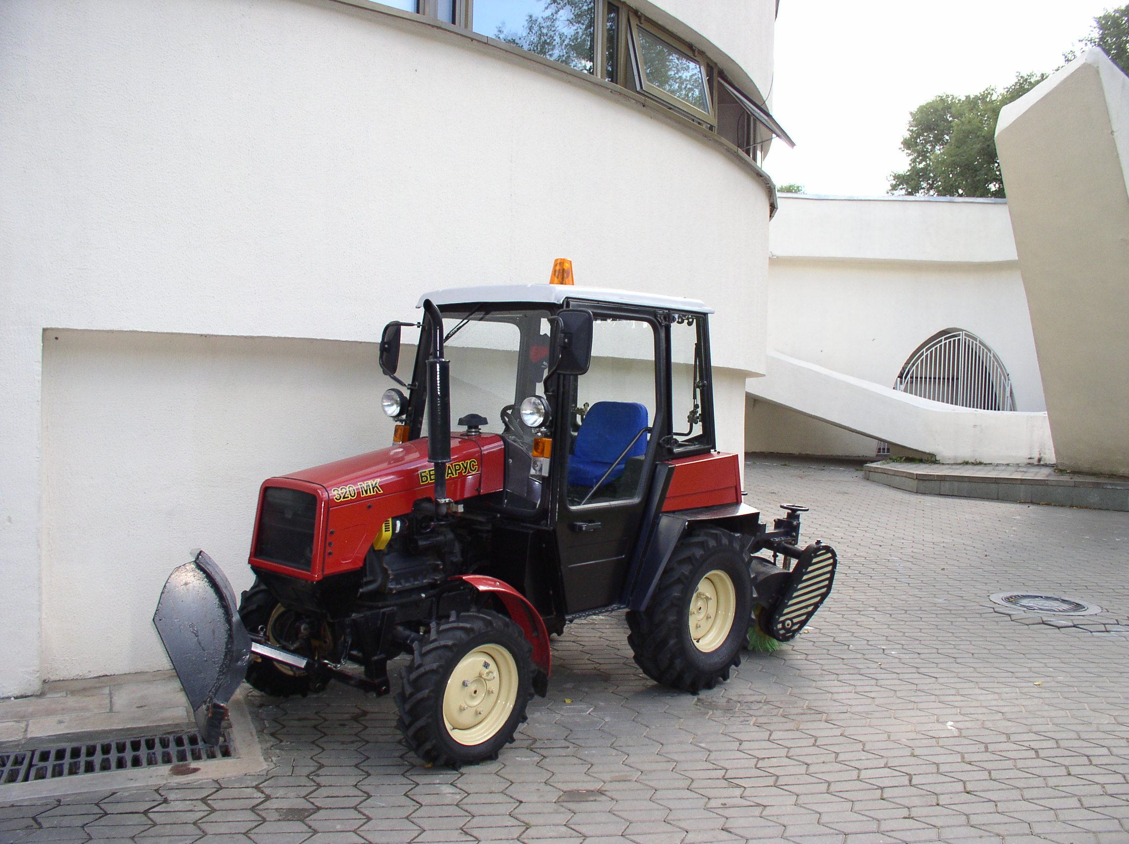 Tractor "Belarus-320 MK". Minsk, Belarus.